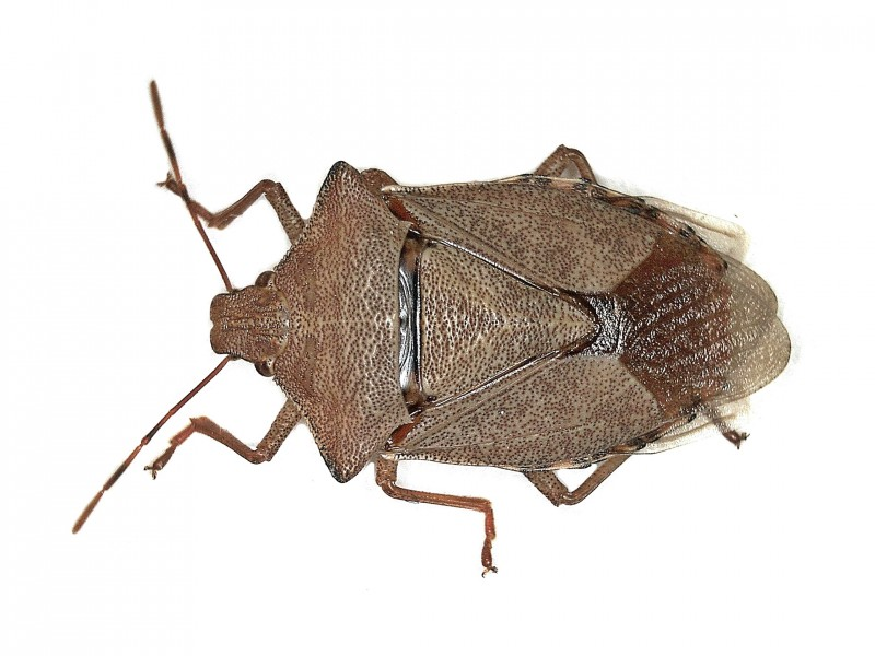 Arma custos (Pentatomidae) - (imago), Elst (Gld) - De Park, the Netherlands